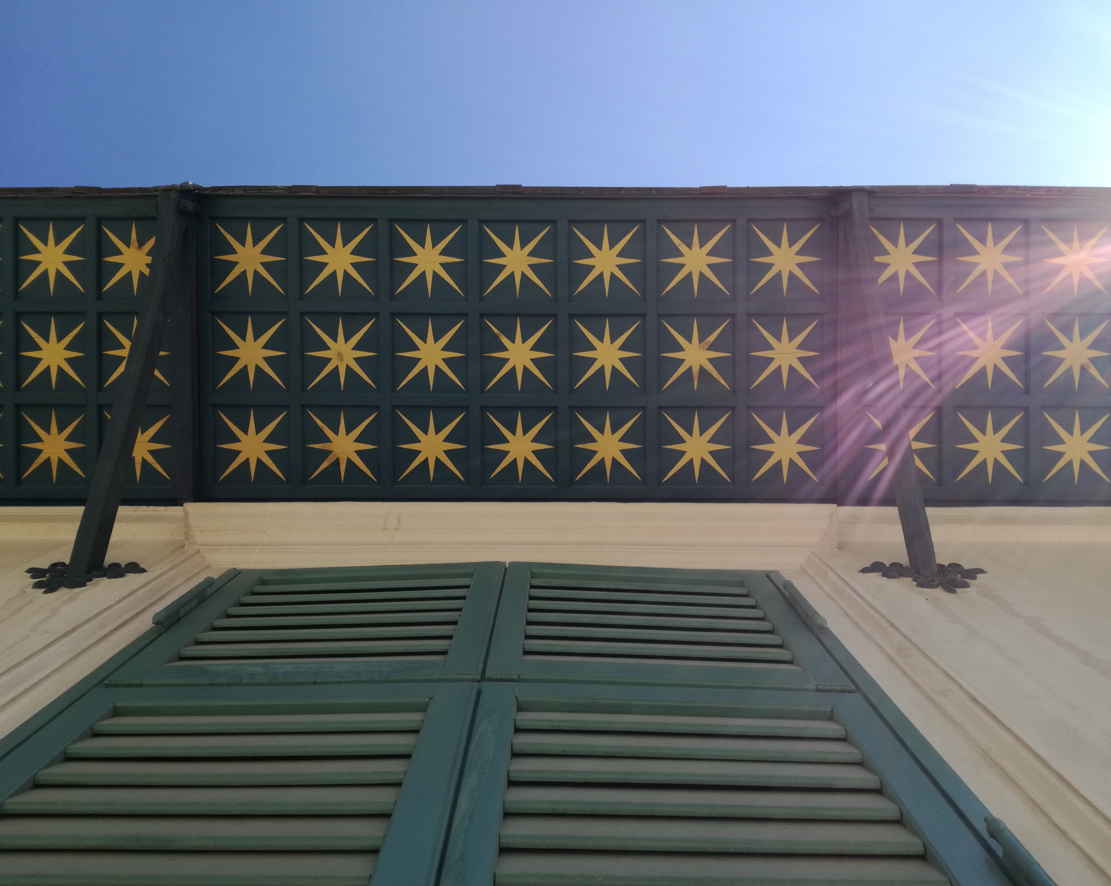 Neuer Pavillon (Berlin), Architectureal detail: Balcony with Stars, Window with Shutters